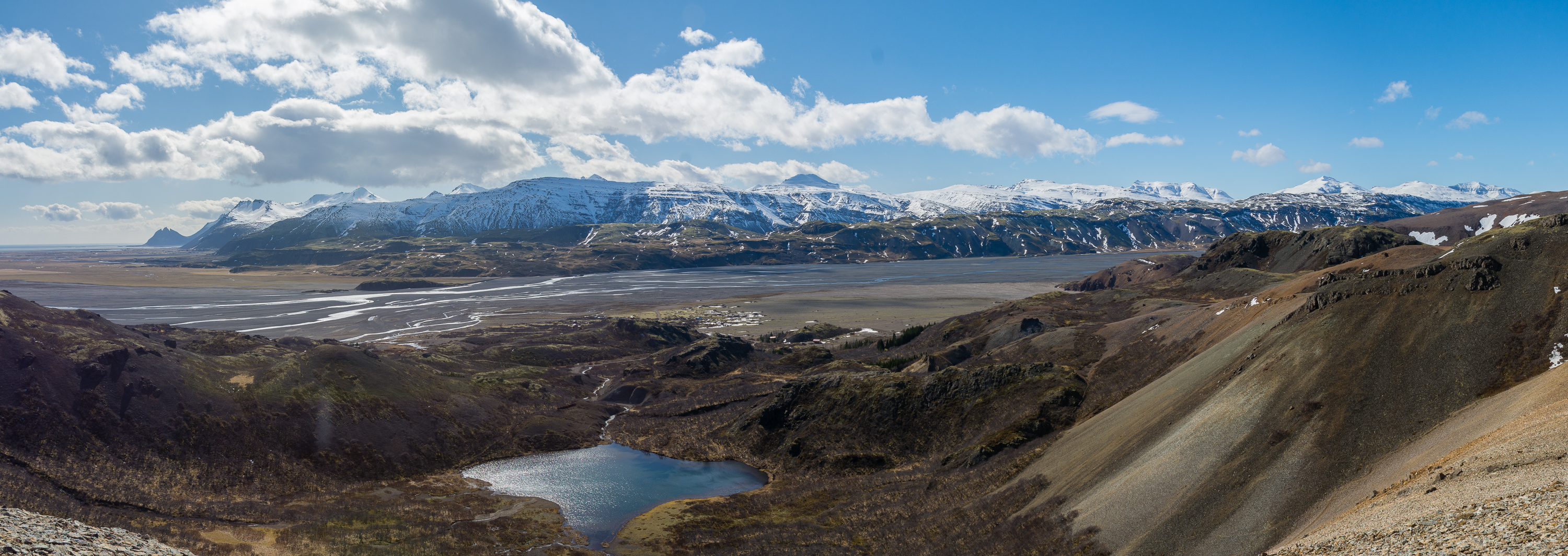 Jökulsá í Lóni valley in april, seen from Gulllaugarfjall mountain